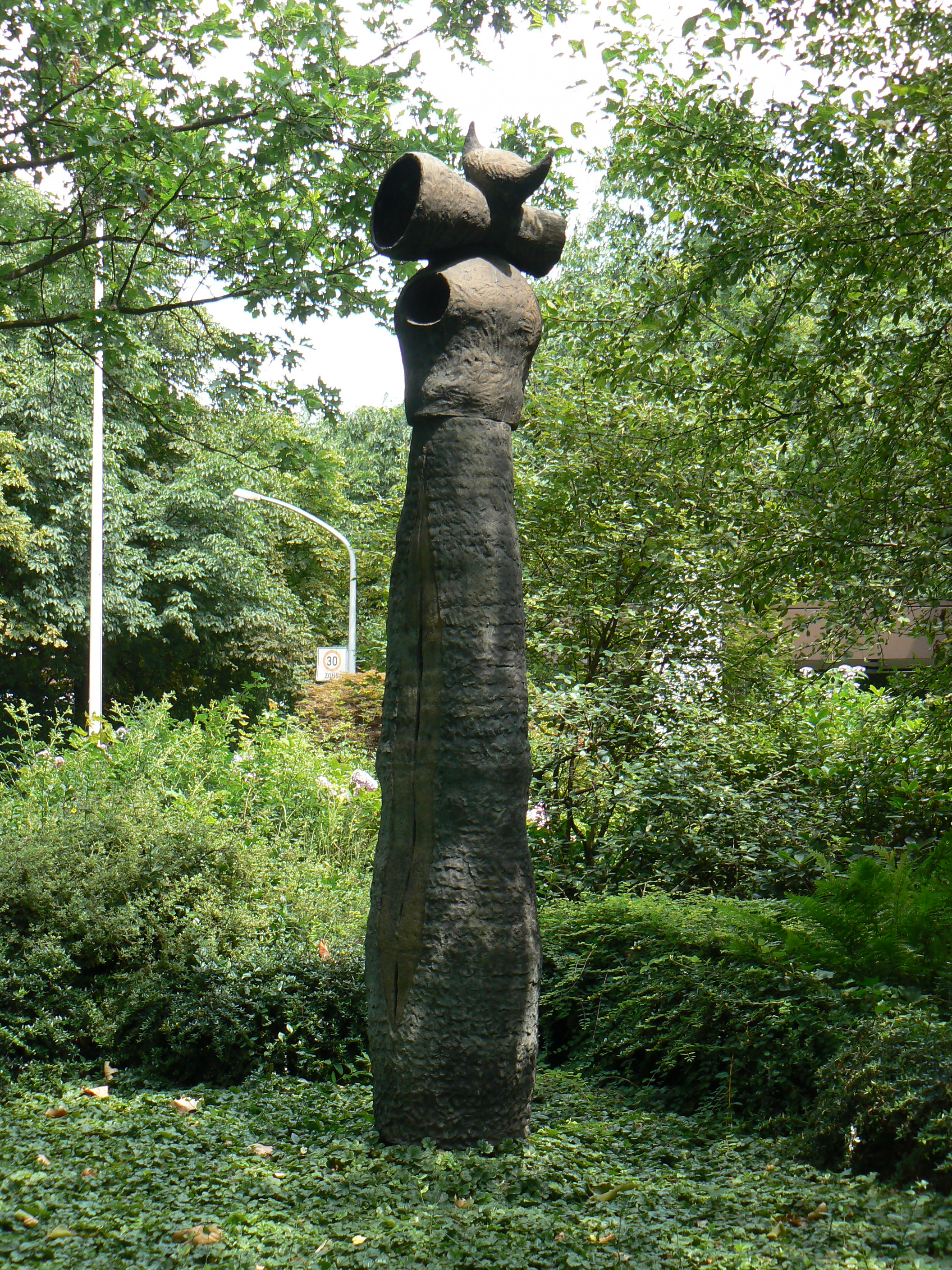 Sculpture:Personnage et Oiseau by Joan Miró in Duisburg/Germany